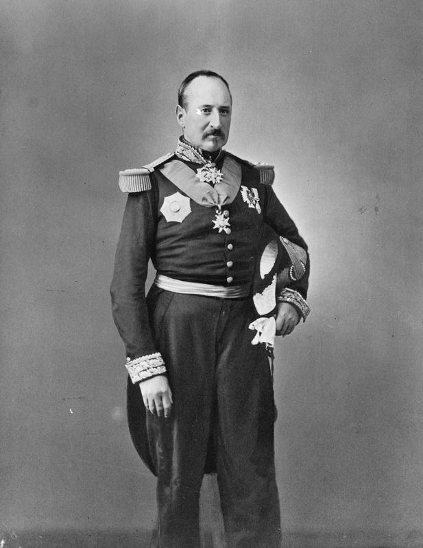 Crimean War 1854-56 General Edmond de Martimprey, Chief of the Staff of the French Army.